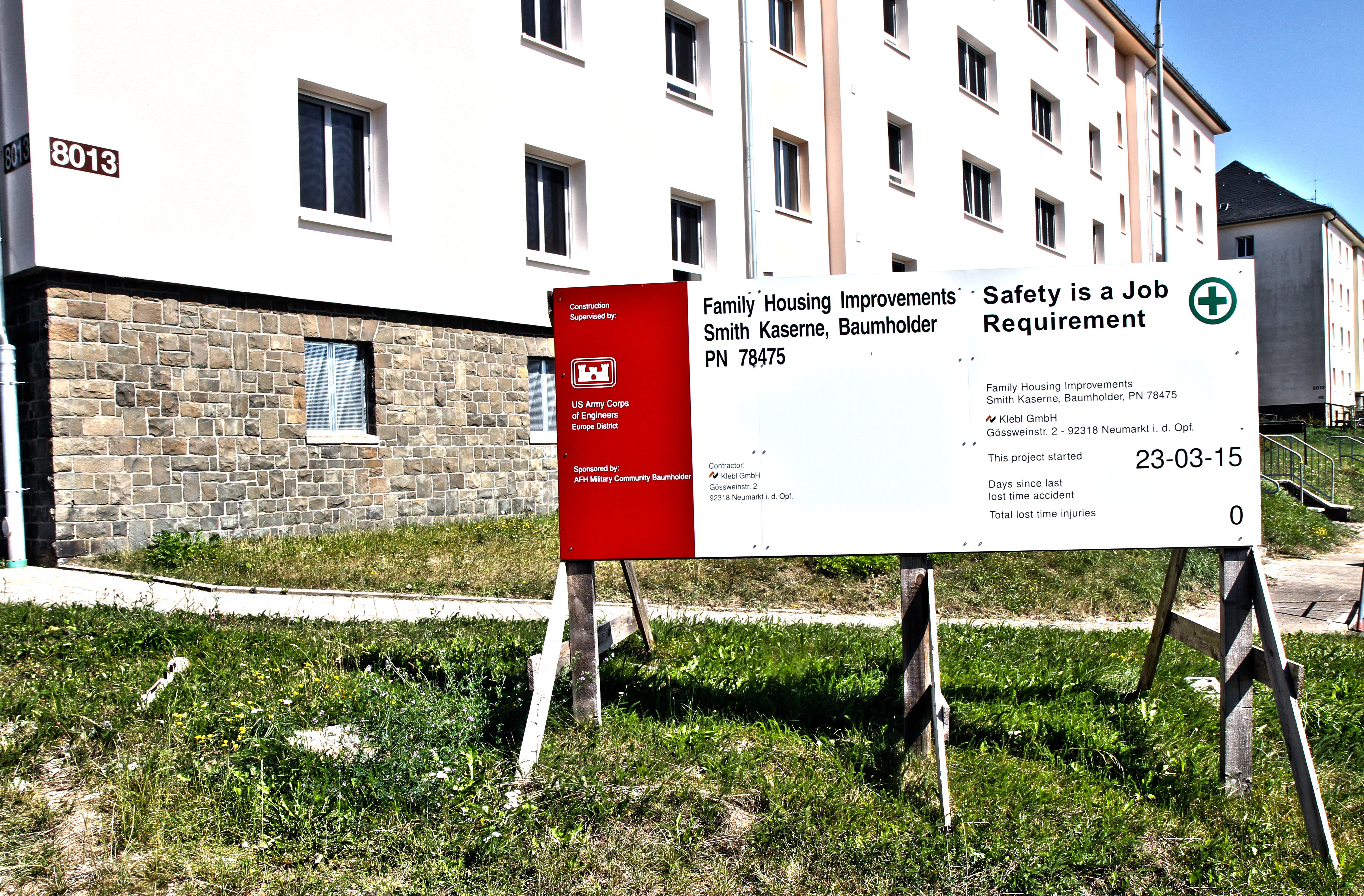 Smith Kaserne, Baumholder, Family Housing Improvements project for U.S. Army Garrison Rheinland-Pfalz, Germany, Aug. 17, 2016. The purpose of the project is to provide revitalization of junior non-commissioned-officer, family-housing apartments to meet current standards. Renovations on multiple buildings are anticipated for completion in early 2017. (U.S. Army photo illustration by Sarah Gross)